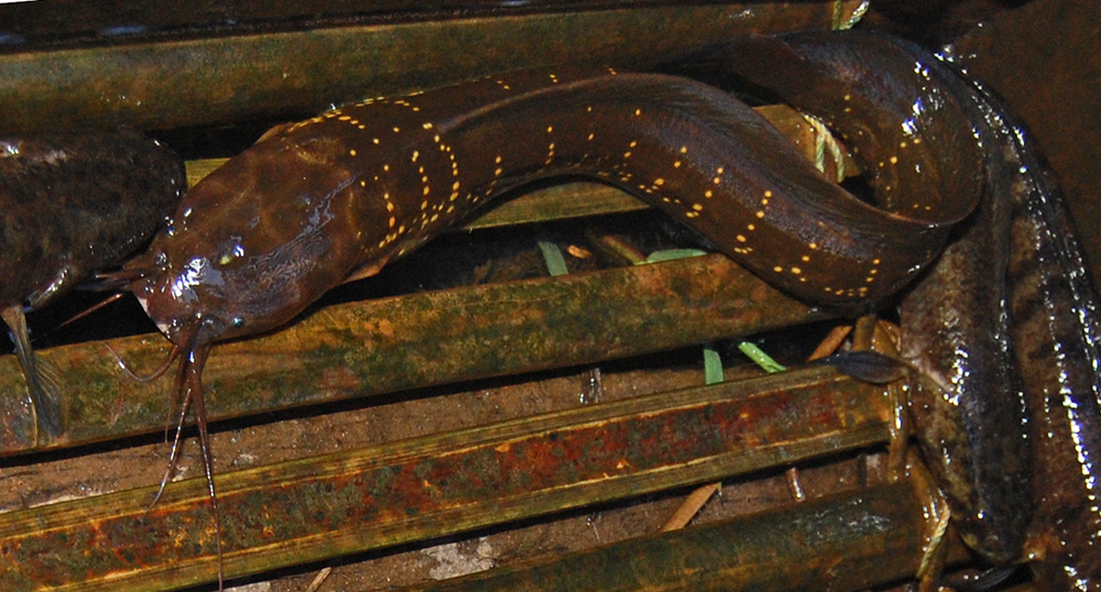 Clarias nieuhofii from Mentaya Hulu, Central Kalimantan, Indonesia